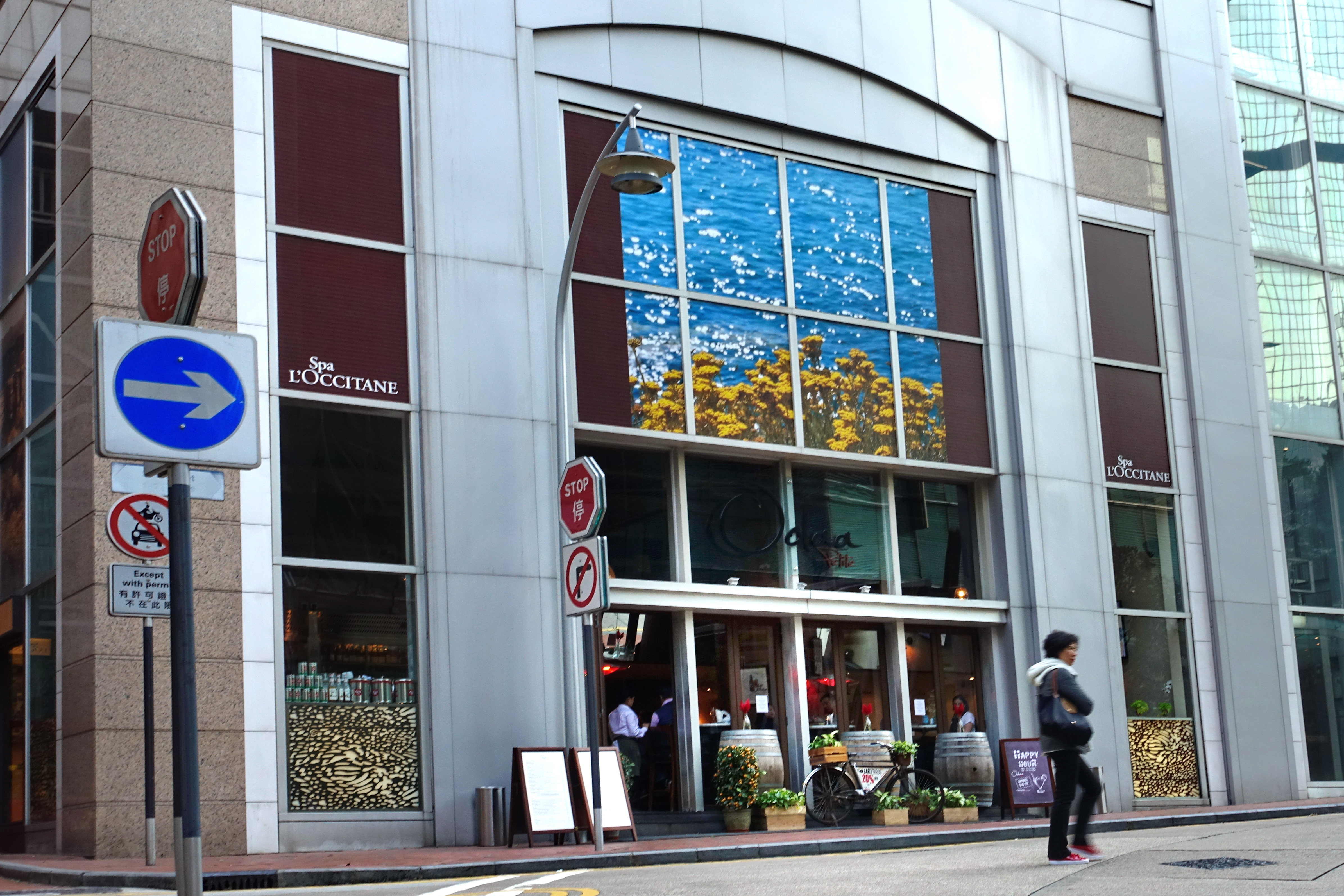 Spa L'OCCITANE at Star Crest, Wan Chai, Hong Kong.